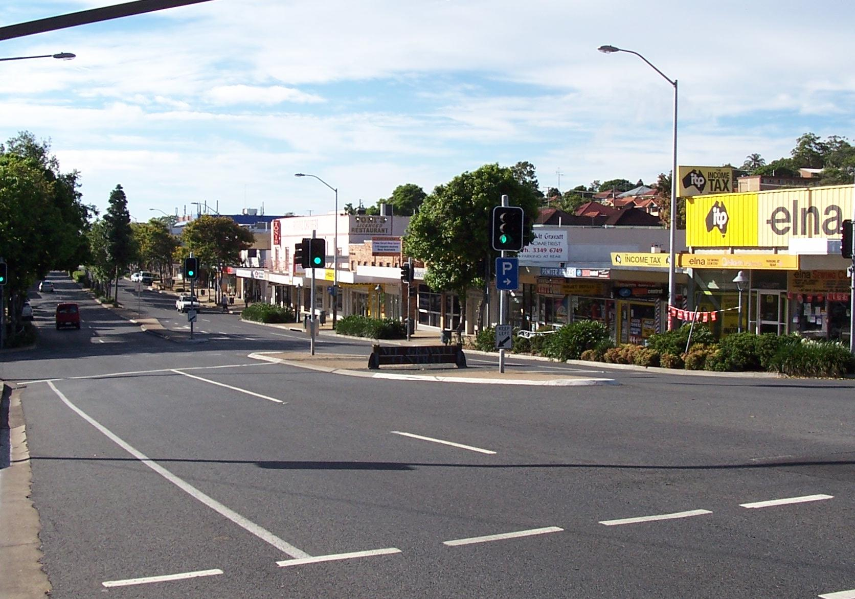 Mount Gravatt Central. Picture taken in morning and looking south on Logan Road.